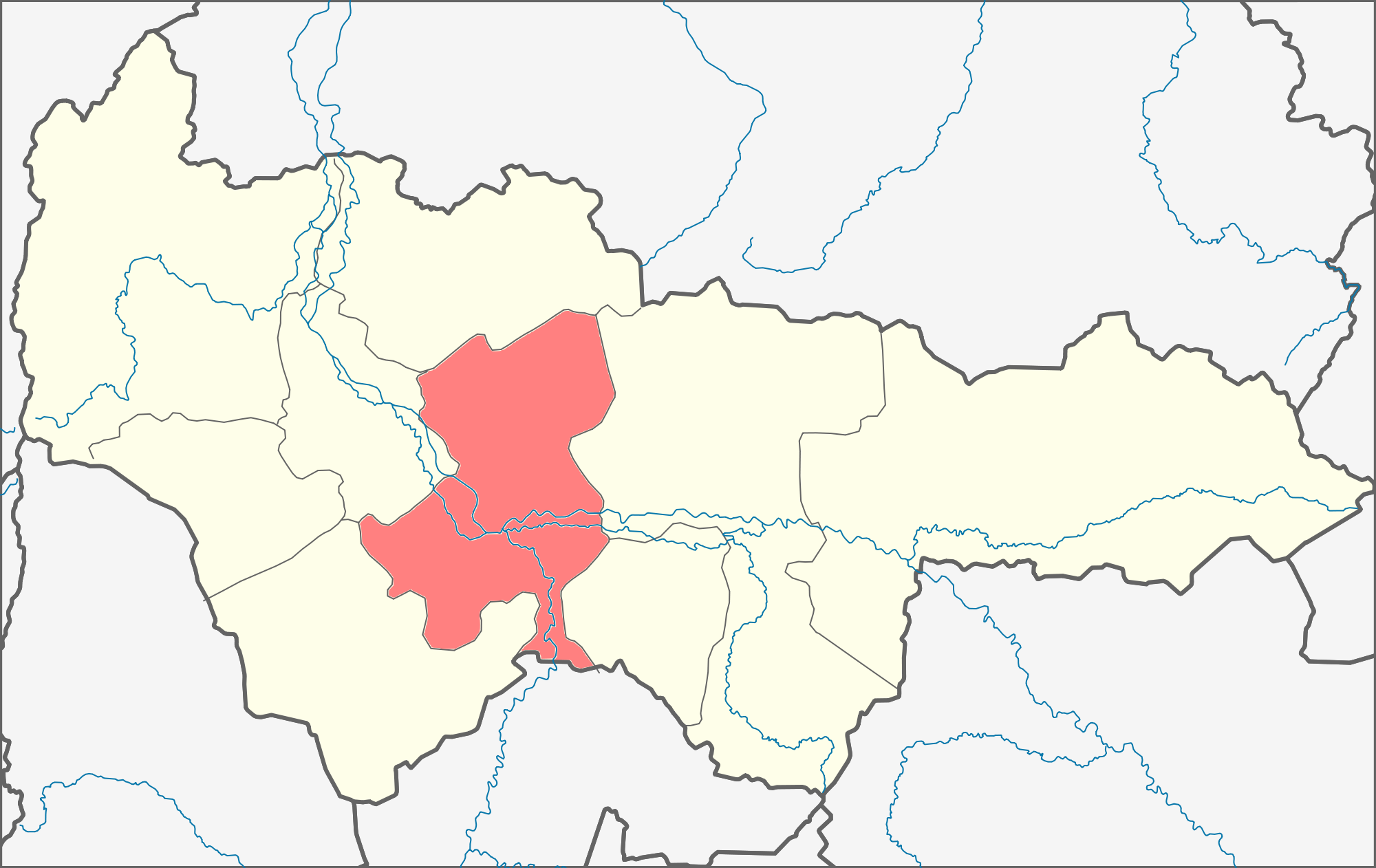 Location of Khanty-Mansiysky District in the Khanty–Mansi Autonomous Okrug, Russia. This is a derivative work, based on